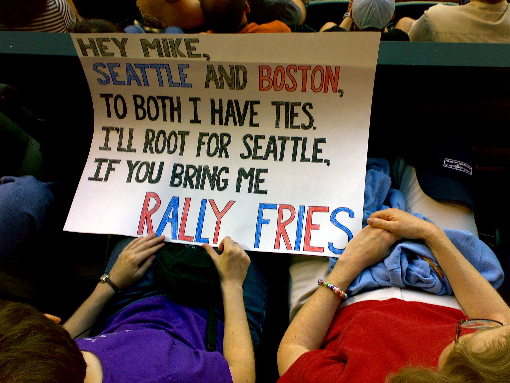 A sign asking for rally fries, a tradition amongst Seattle Mariners fans.